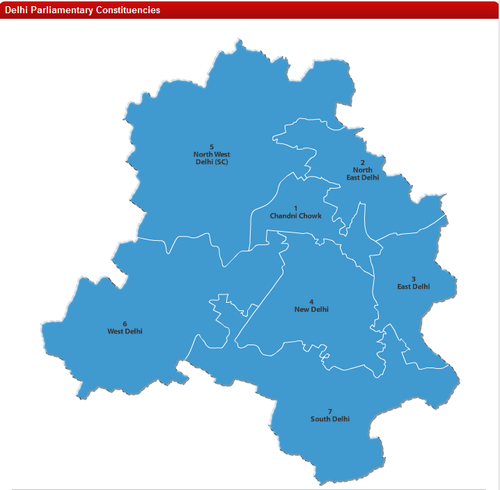 Political Map of Delhi (National Capital Territory of Delhi) showing Parliamentary constituencies as of 2009 elections.